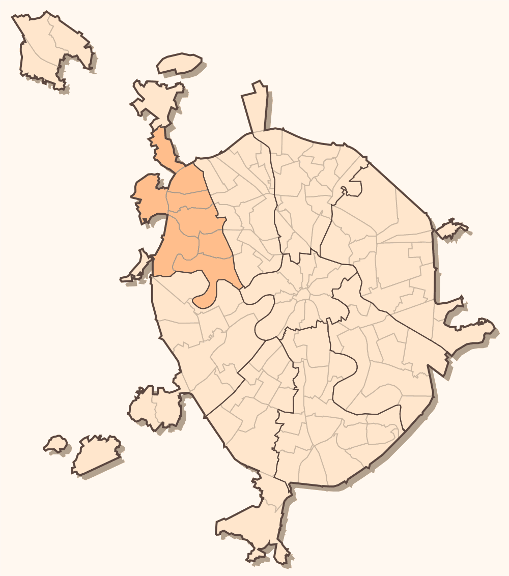 Moscow districts map